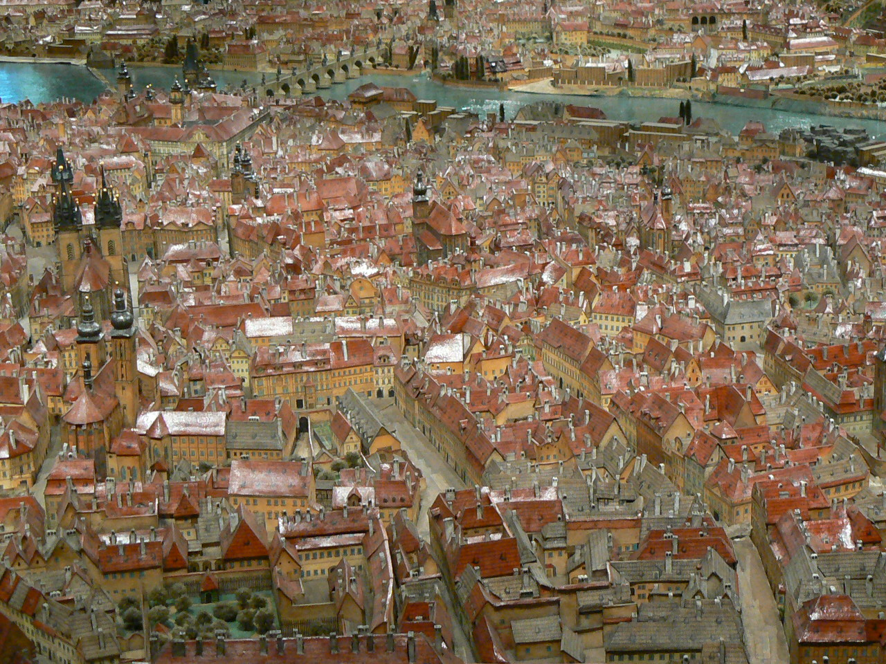 Antonín Langweil's model of Prague (1826-1837)